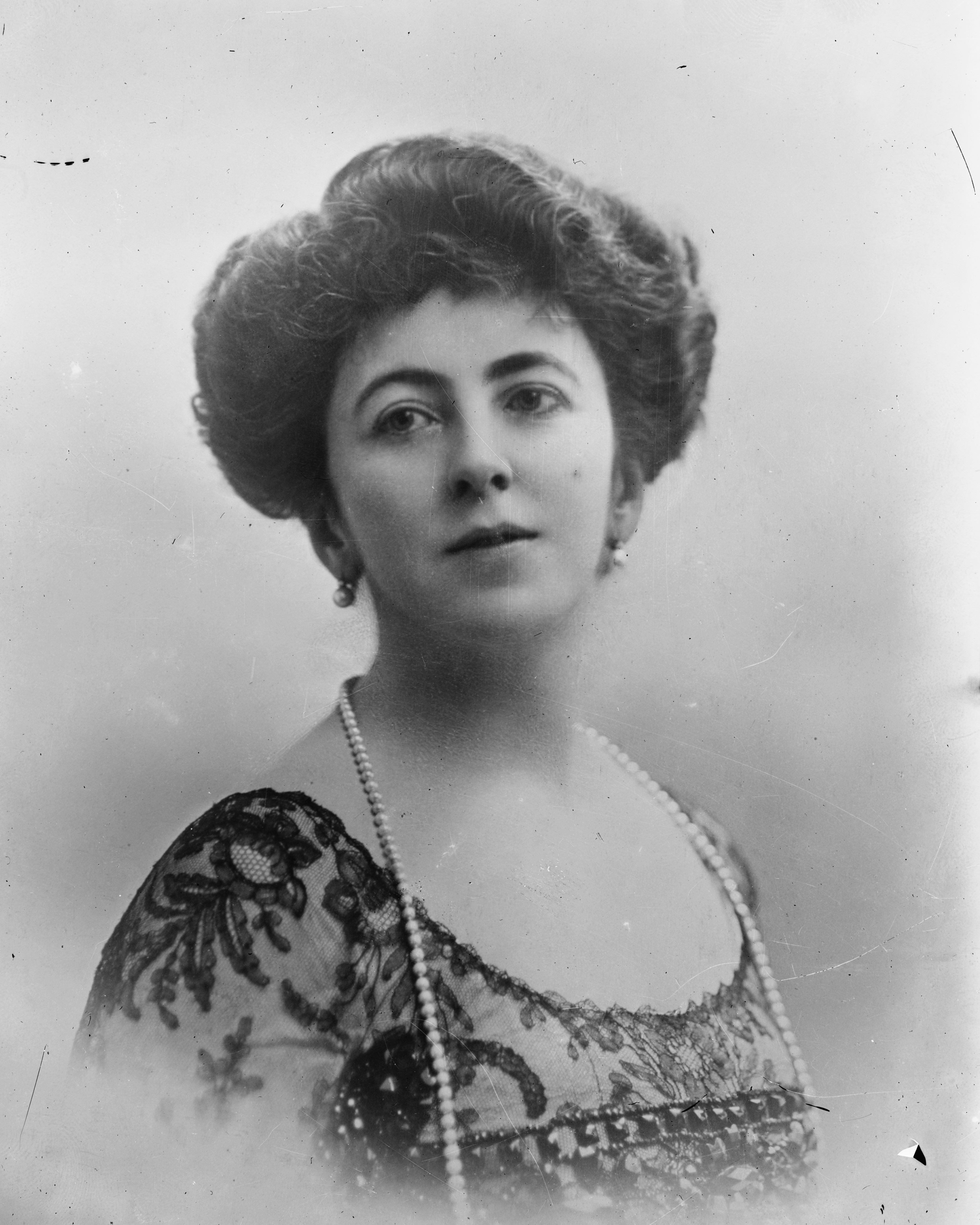 Margarita Armstrong (1867-1948), who married businessman Anthony J. Drexel in 1886 and divorced him in 1917. She had four children with Anthony Drexel: Anthony Joseph Drexel III, Margaretta Armstrong Drexel, John Armstrong Drexel (1891-1958), and Louis Clapier Norris Drexel